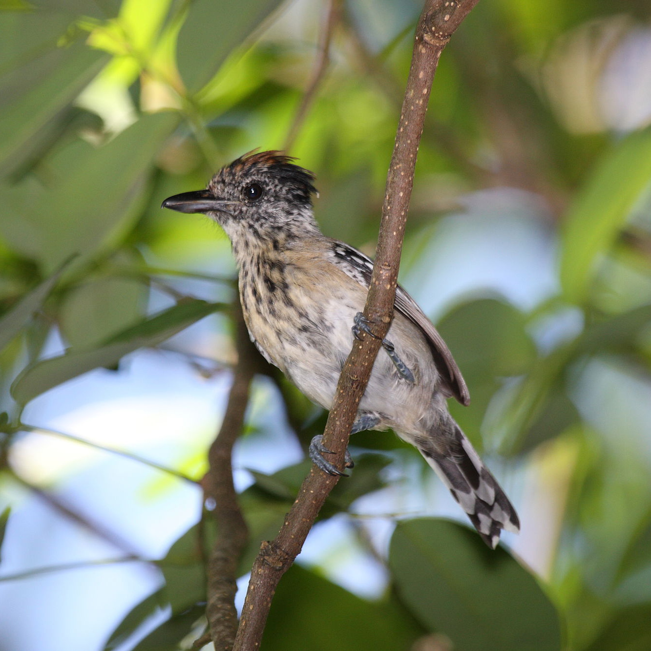 Black-crested Antshrike Sakesphorus canadensis female Trinidad and tobago